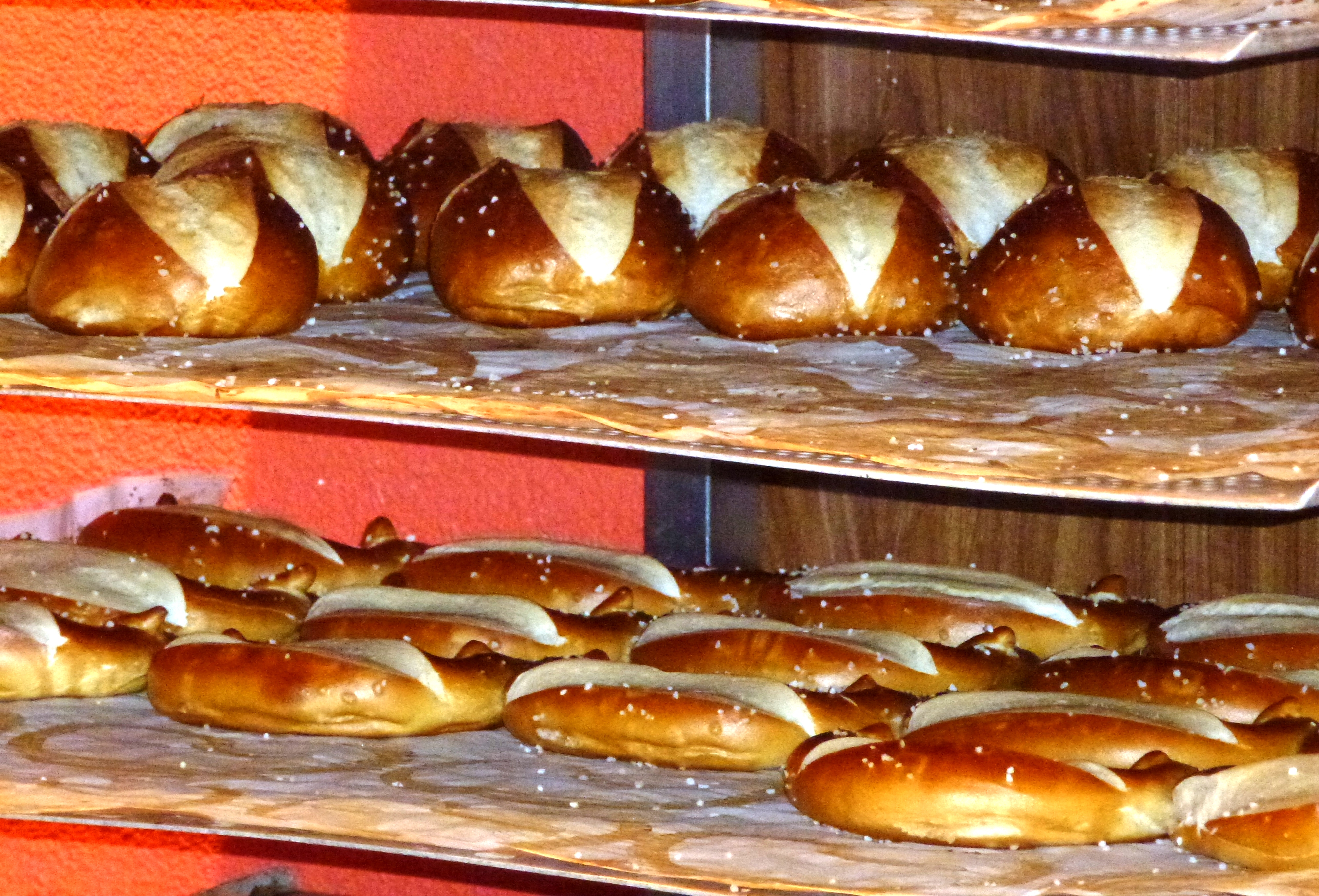 Alkali bakery - breadrolls and pretzels